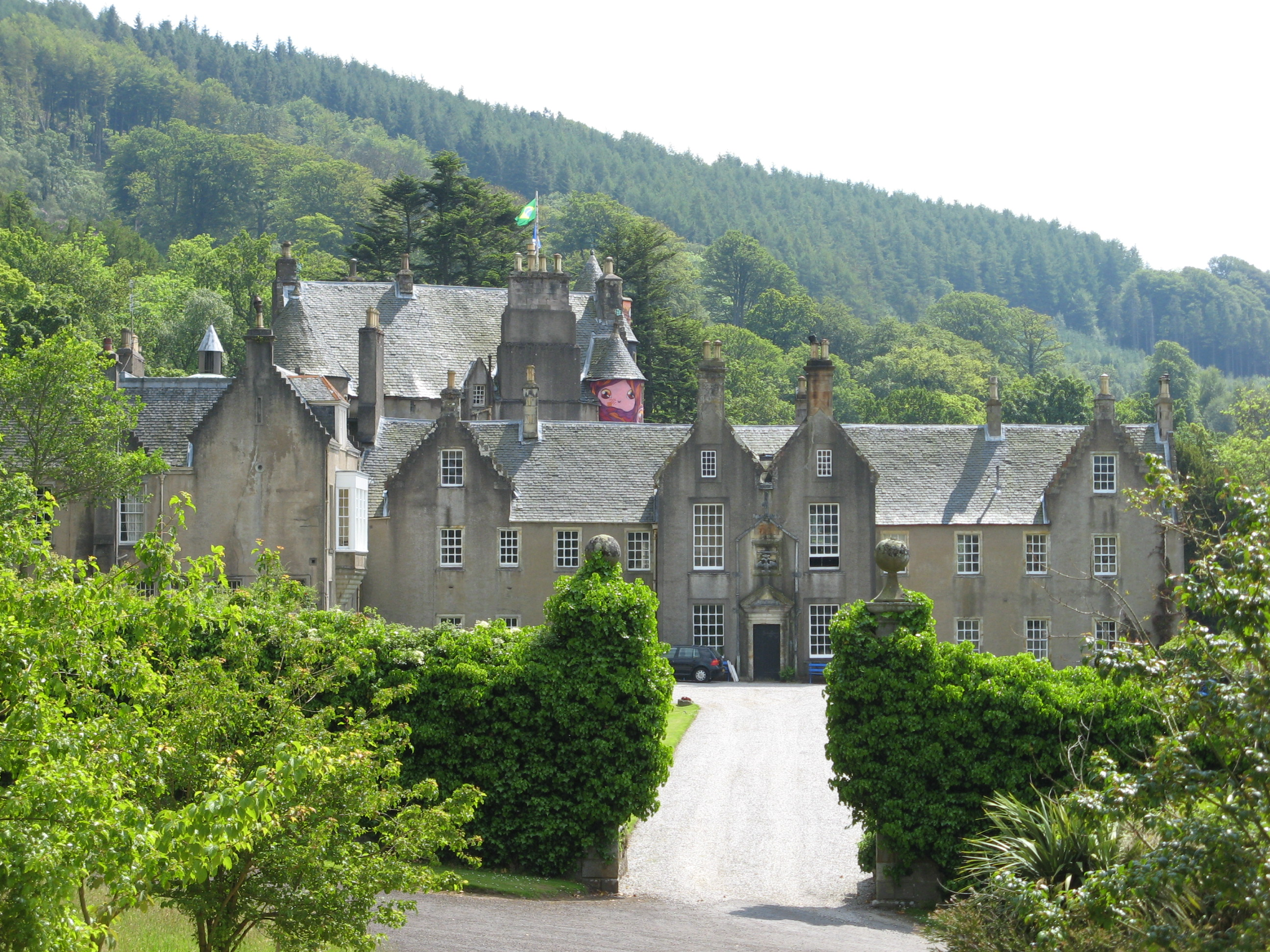 North facade of Kelburn Castle, near Largs, Scotland